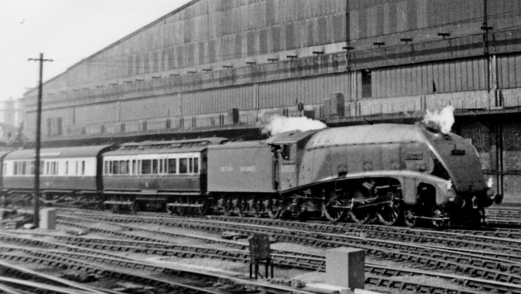 The 1948 Locomotive Exchanges: an LNER Pacific entering Paddington. View NW to Paddington Goods station. Gresley A4 Pacific No.60033 'Seagull' whistles as it arrives at Paddington on the 08.30 express from Plymouth with the dynamometer-car leading - an extraordinary sight at the time.